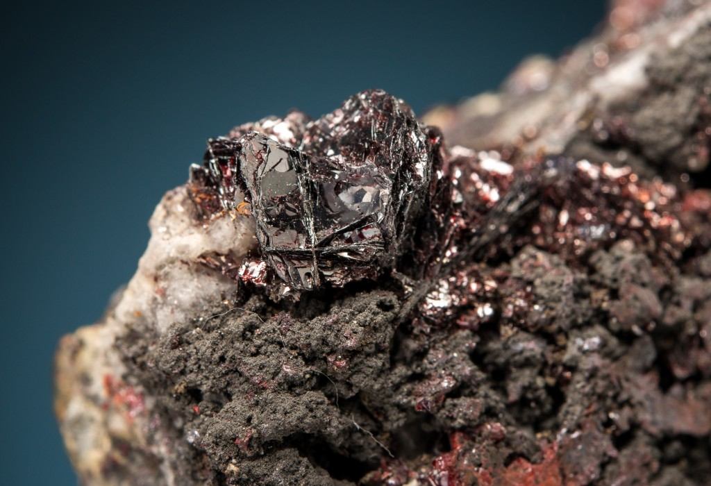 Fettelite Locality: Chañarcillo, Copiapó Province, Atacama Region, Chile Field of view 32 mm; largest crystal size 7 mm Fettelite crystal group from Chanarcillo, Chile. Bought in 1999 from Marcus J. Origlieri